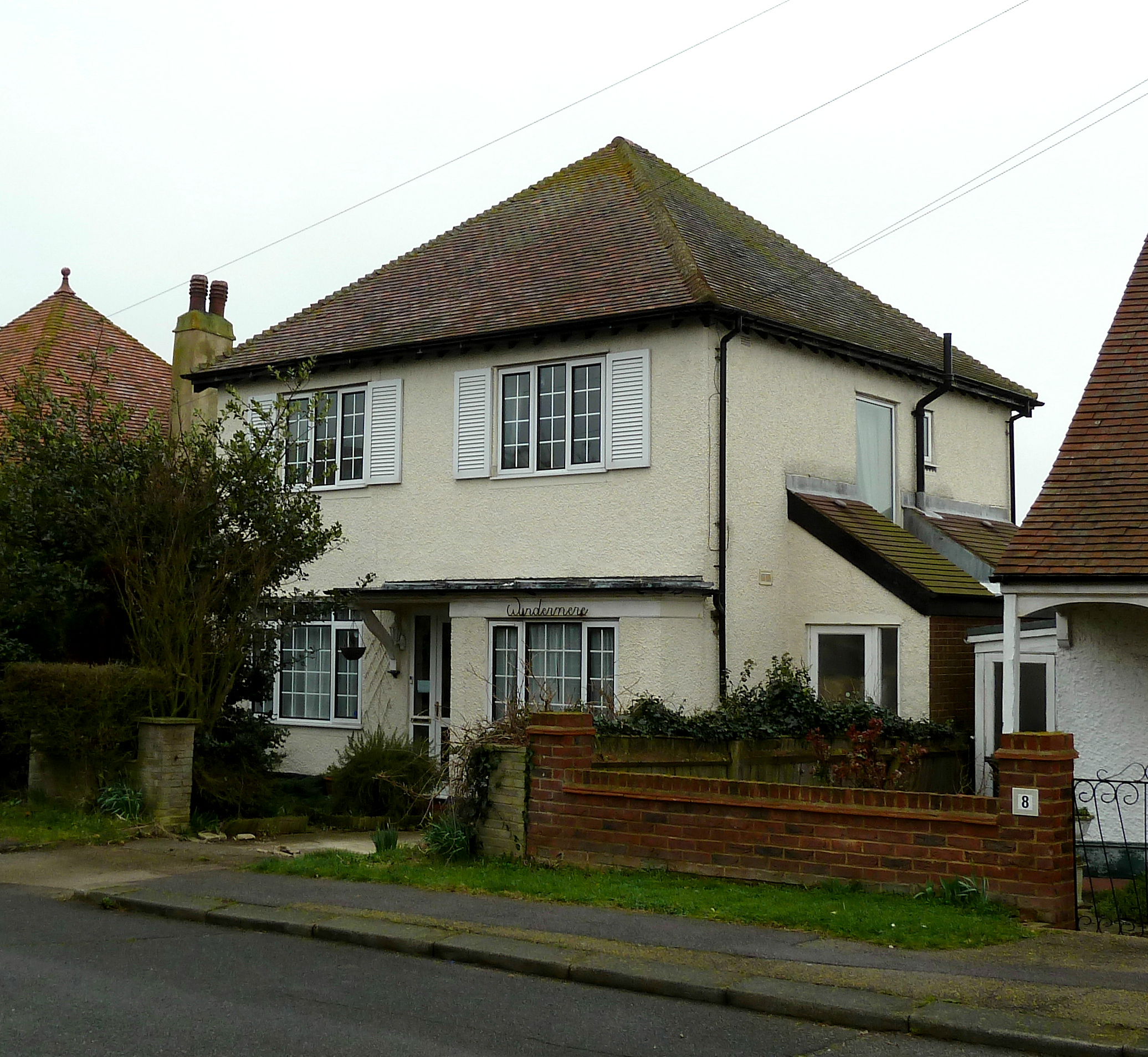 Windermere, High View Avenue, Herne Bay, Kent, England. It was built sometime between 1920 and 1935. It was home to author Will Scott from 1935 to 1964. While he lived there it was neat and pebbledashed, which made the walls look brown. The windows had small panes. It is probable that his study was on the first floor at the back, so that he had a view over Hampton and the sea as far as Sheppey. From that upstairs back window he would have seen most of the site of Hampton-on-Sea until new buildings in the 1950s and 1960s obstructed his view. The yellow-painted walls and the plastic windows appeared long after he died.